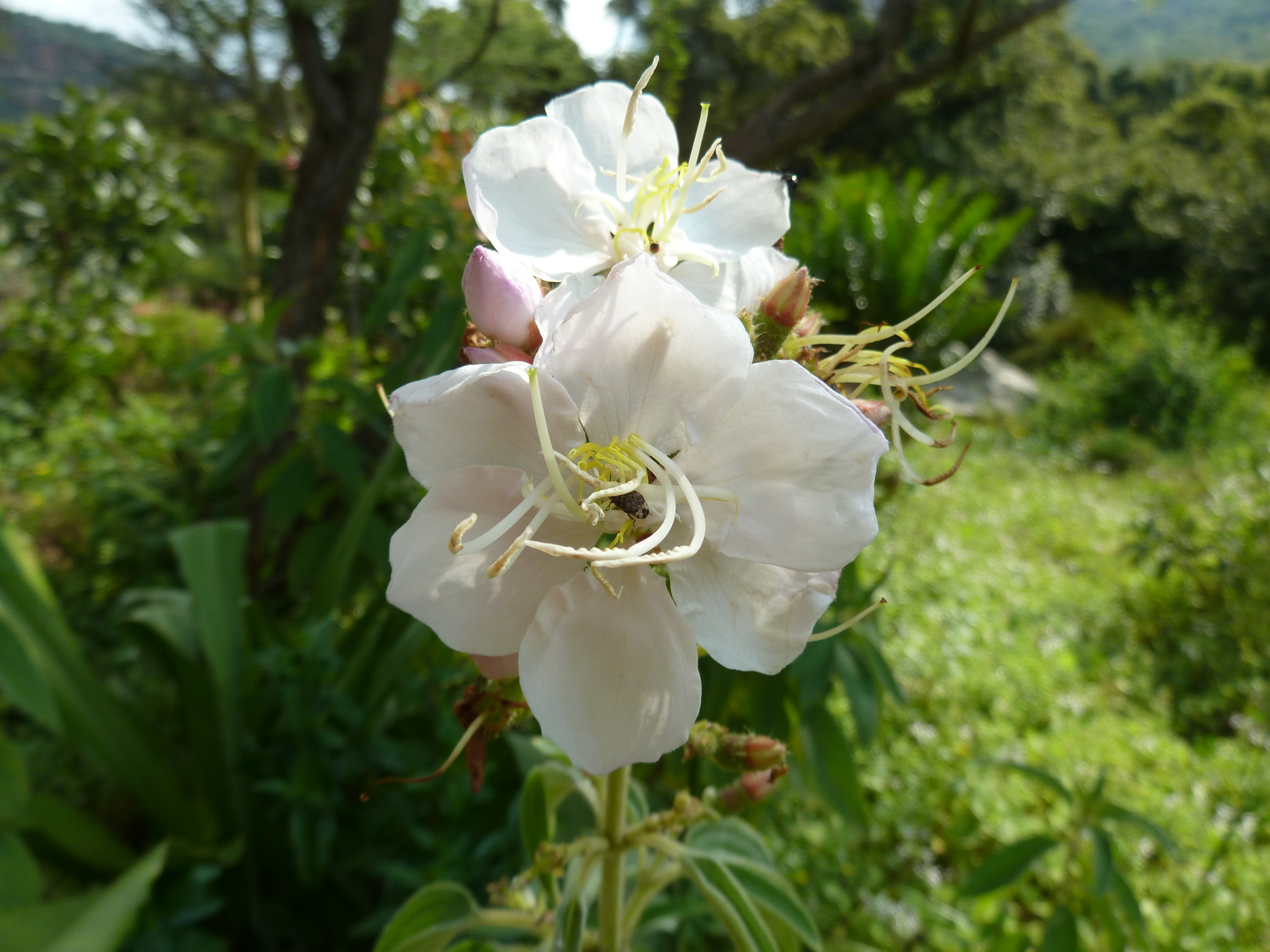 White form of the Wild tibouchina at Walter Sisulu National Botanical Garden, in western Roodepoort, South Africa